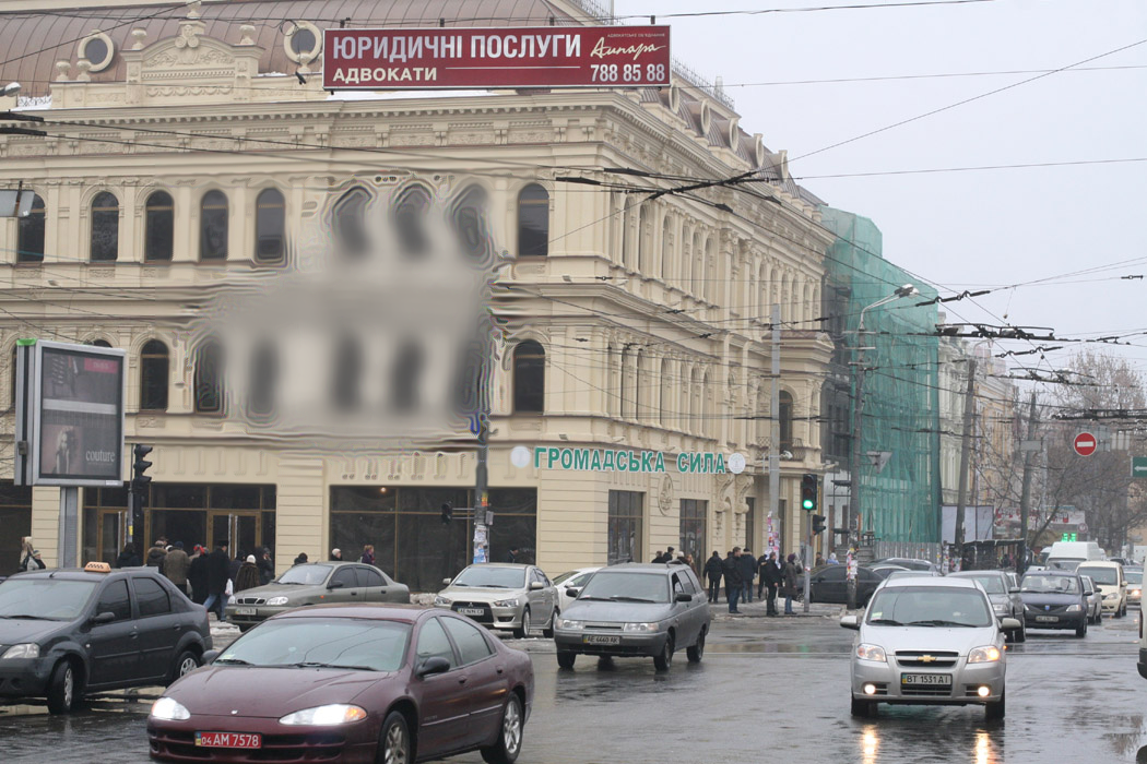 My personal depiction of a migraine aura (Scintillating Scotoma) based off my experience.